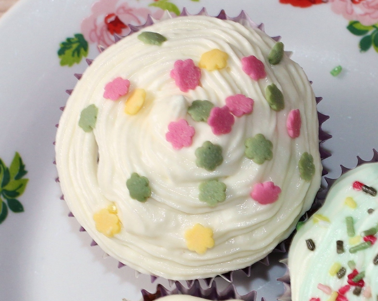 Cupcakes.